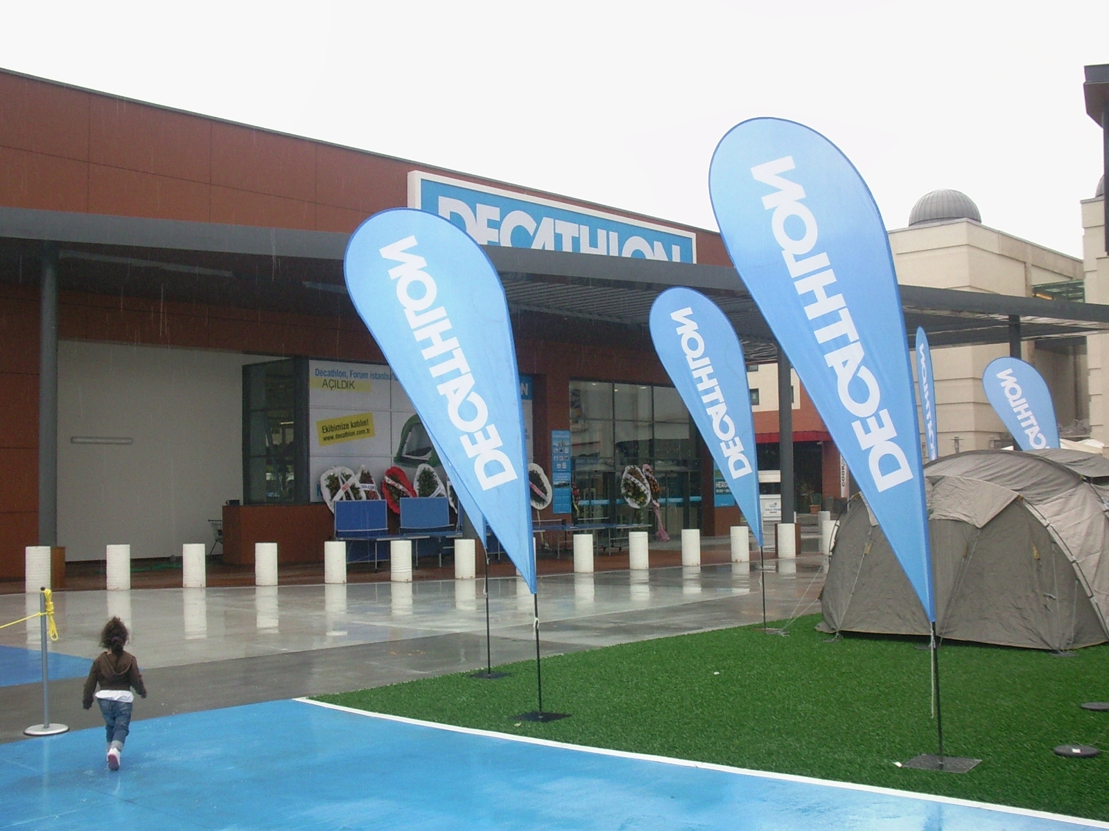 Decathlon İstanbul